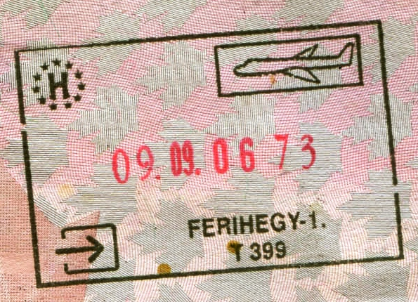 Passport stamp from Feihegy Airport, Budapest, 2006